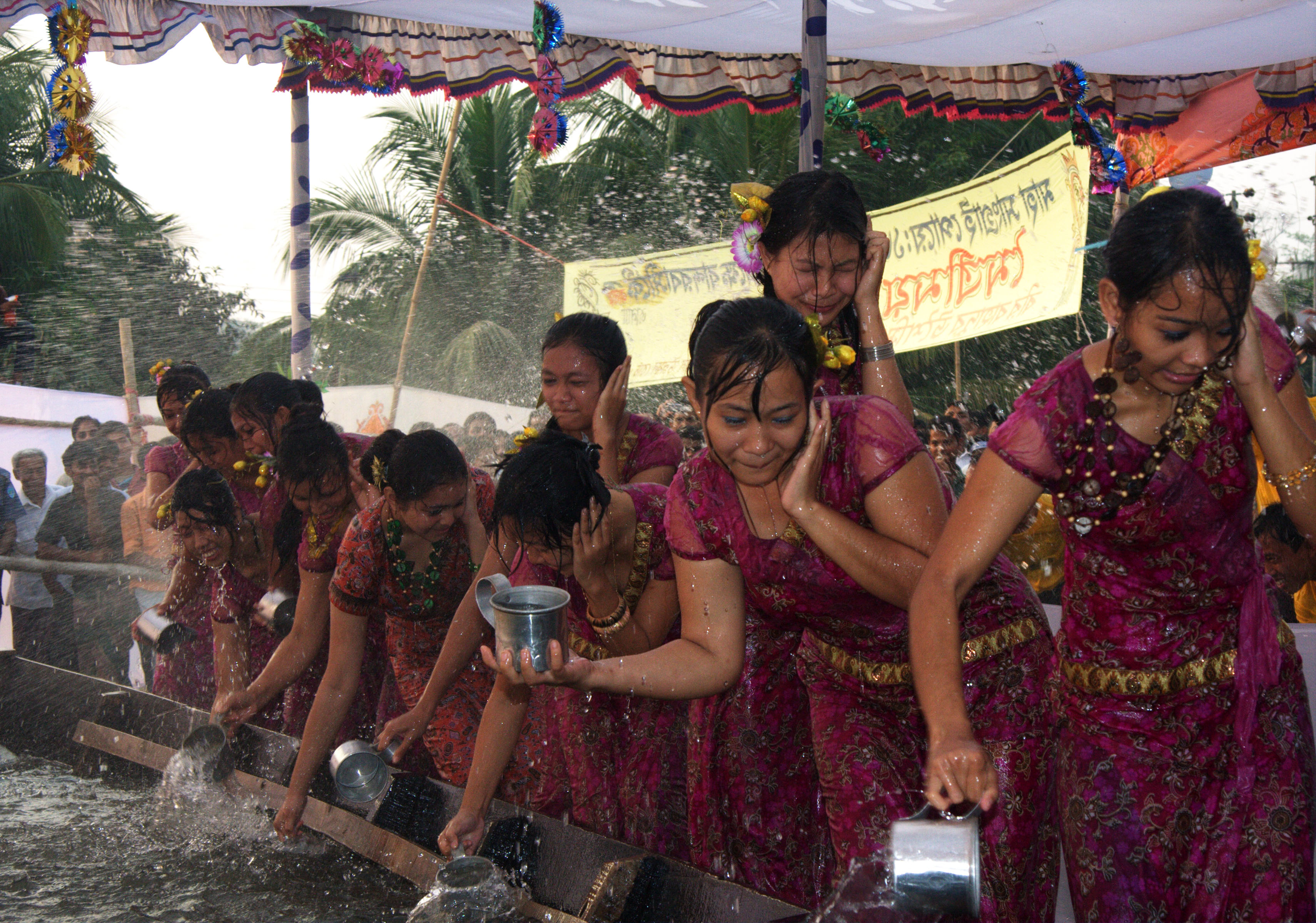 Sangrai: The biggest festival of the Marma community. In mid-April, this celebration of the new year falls around the same time as Bengali Naba Barsha and Assamese Bihu. Apart from the songs and dances Sangrai is marked by the water festival and magic charm competitions. Water festival is a game of splashing water from two sides of a marked arena by unmarried boys and girls on each other. It is said that splashing water is a way of declaring a love interest.